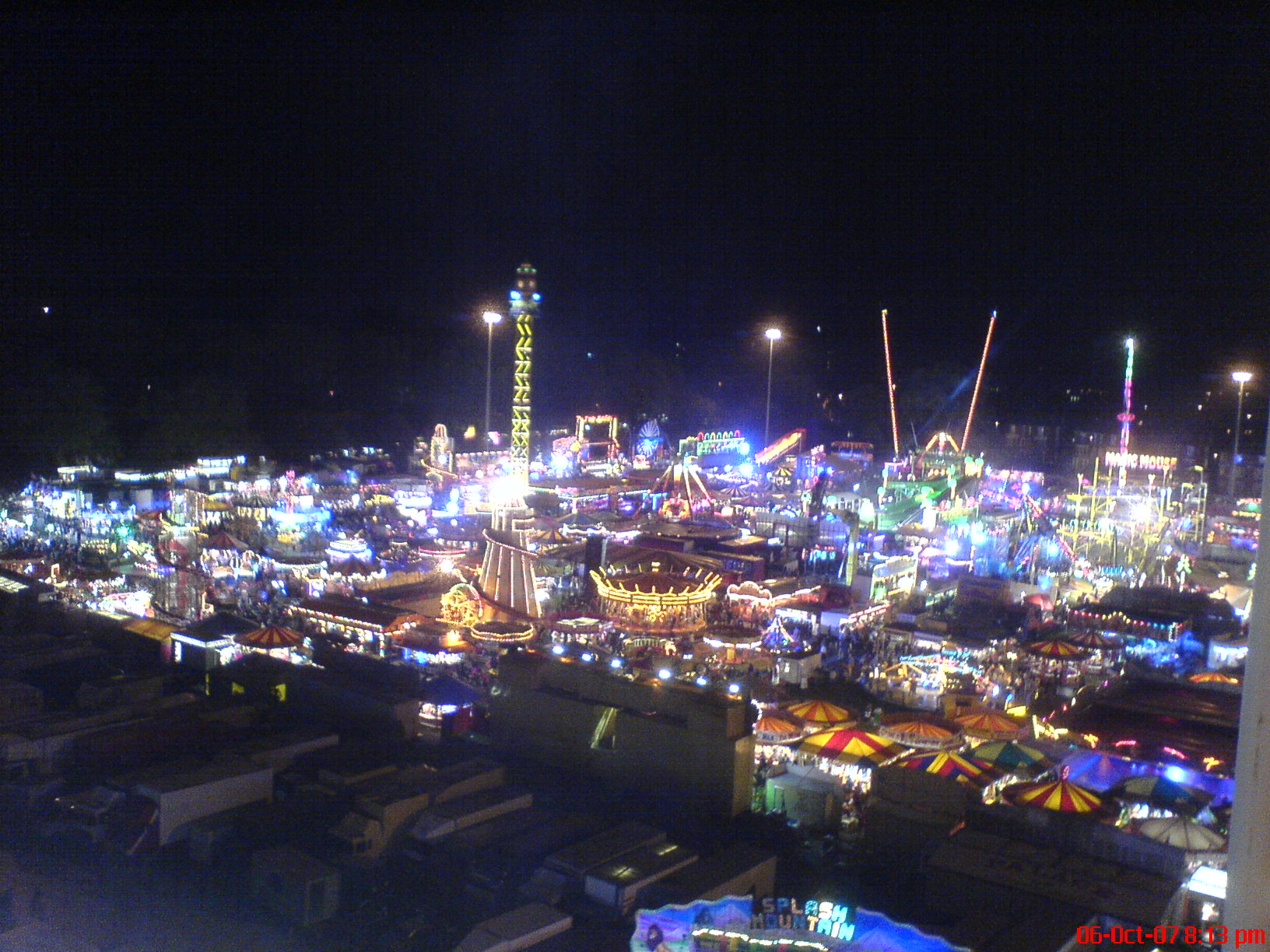 Nottingham Goose Fair at night in 2007 on Forest Recreation Ground.